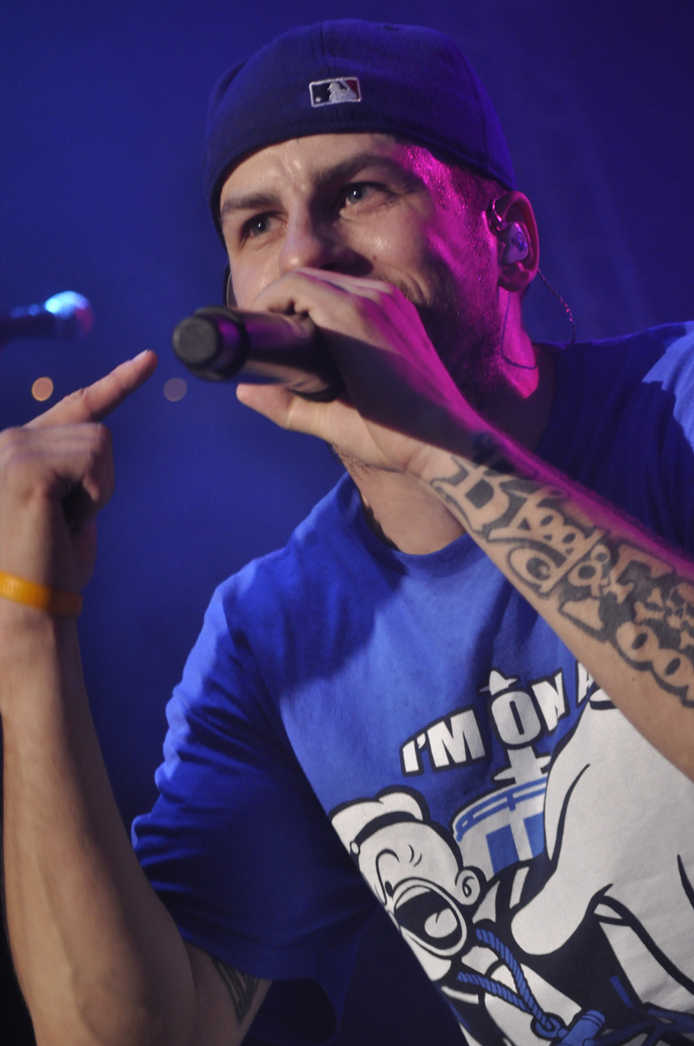 Otakar Petřina aka Marpo, member of Chinaski music group. Shoted 10/7/2010 on Chinaski concert in Liberec, Czech Republic